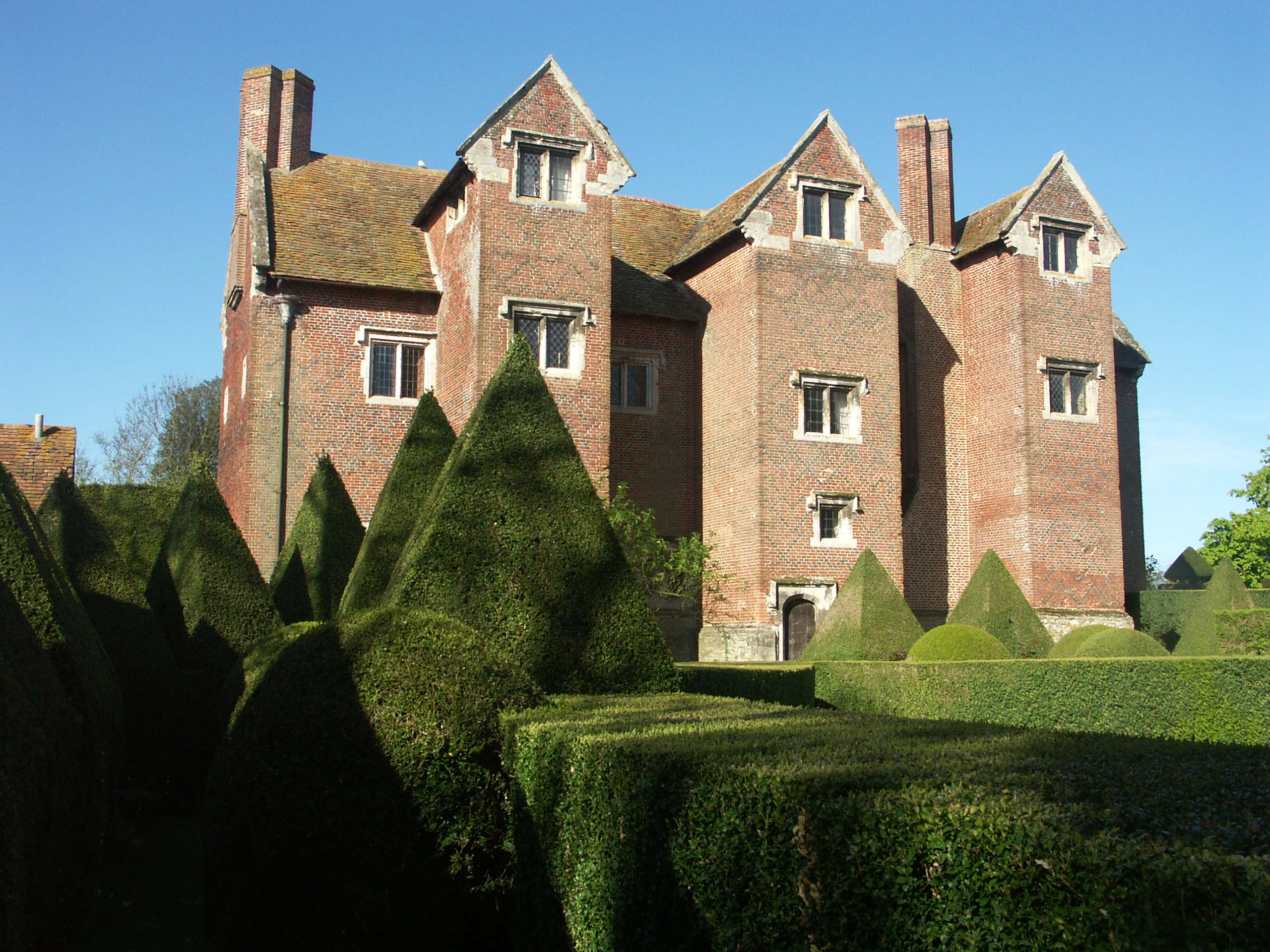 Northeast face of Beckley Park manor including topiary garden. Beckley, Oxfordshire, UK